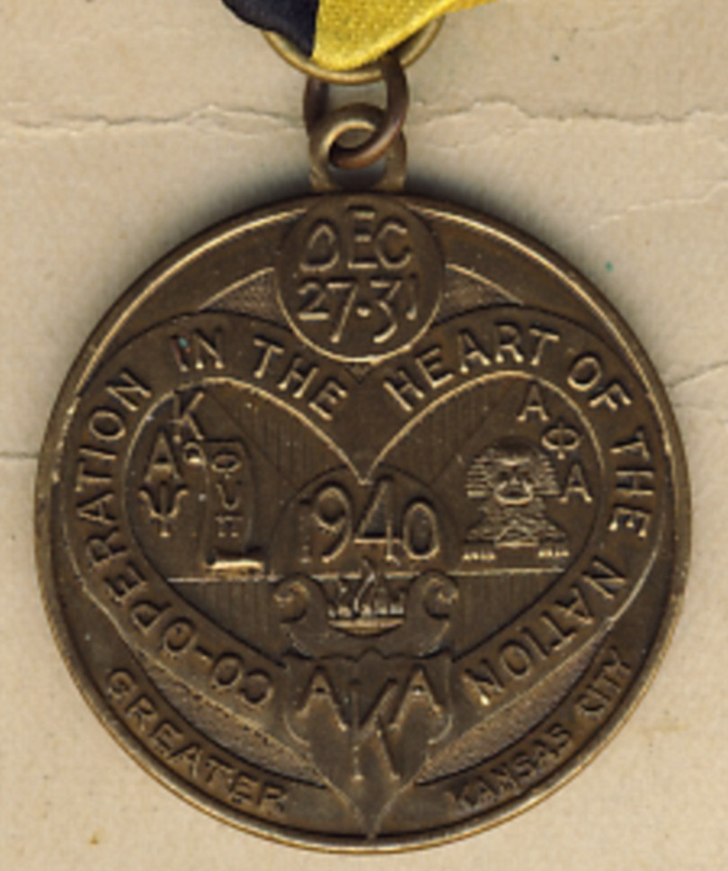 Close up of Image:BadgeAKA1.jpg